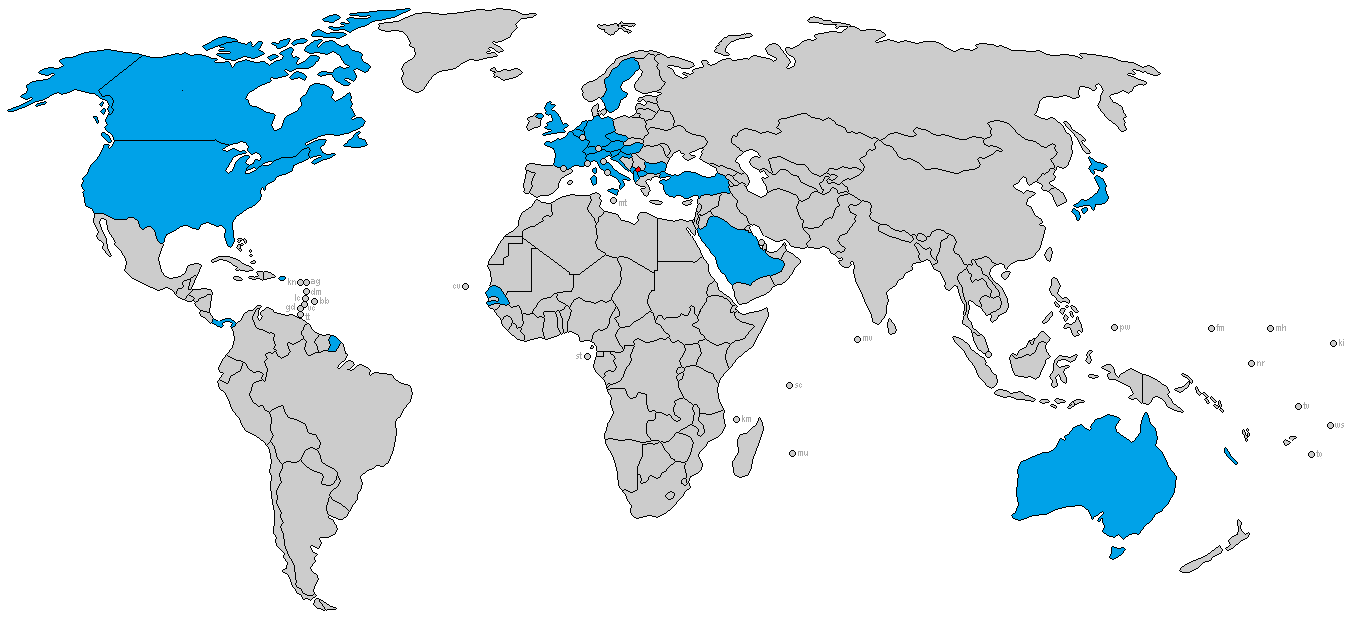 A map to show states which host a diplomatic mission of Kosovo